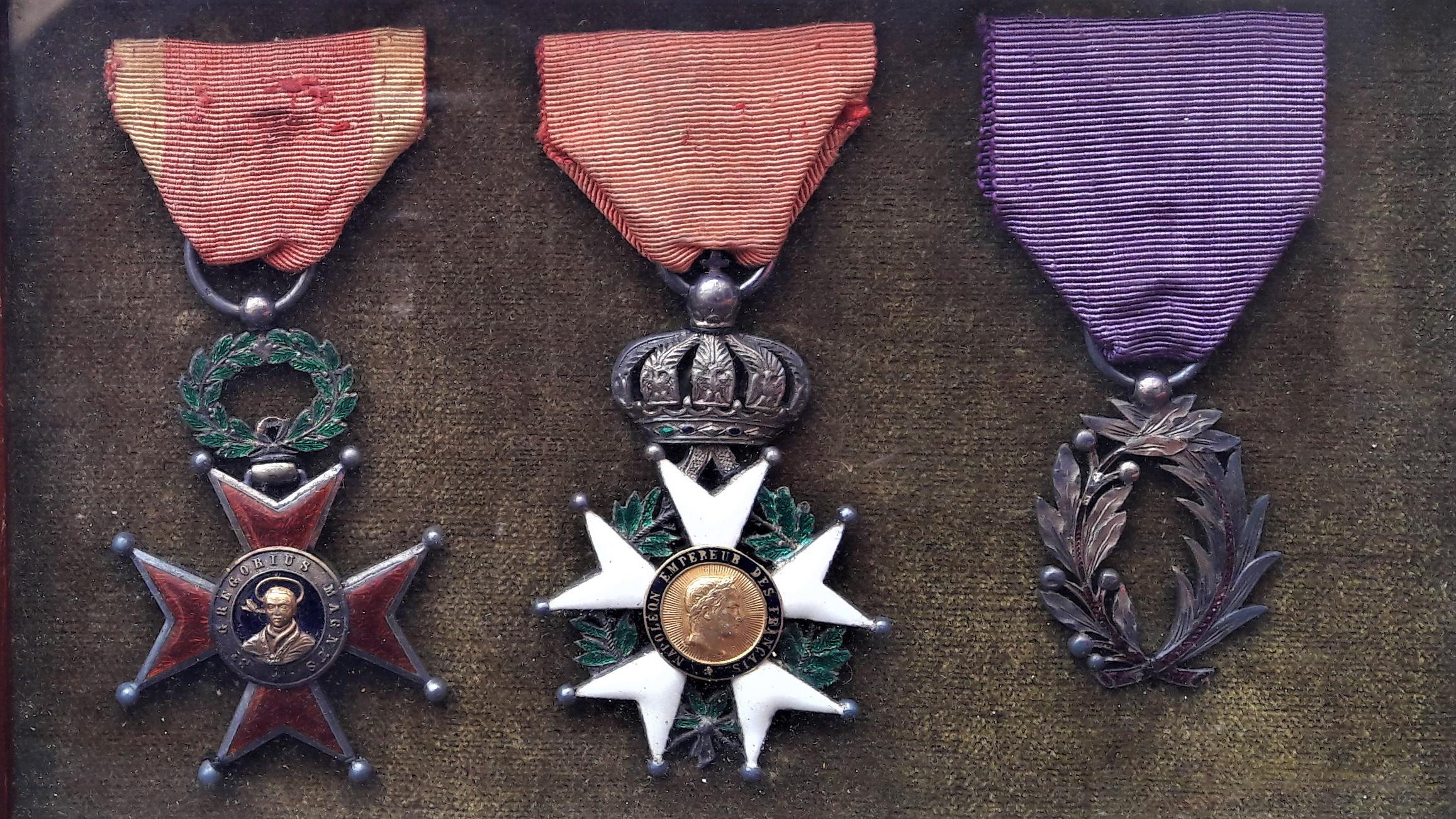 This image is a photo made of a frame belonging to my family containing the three medals received by the architect of the city of Reims Narcisse Brunette